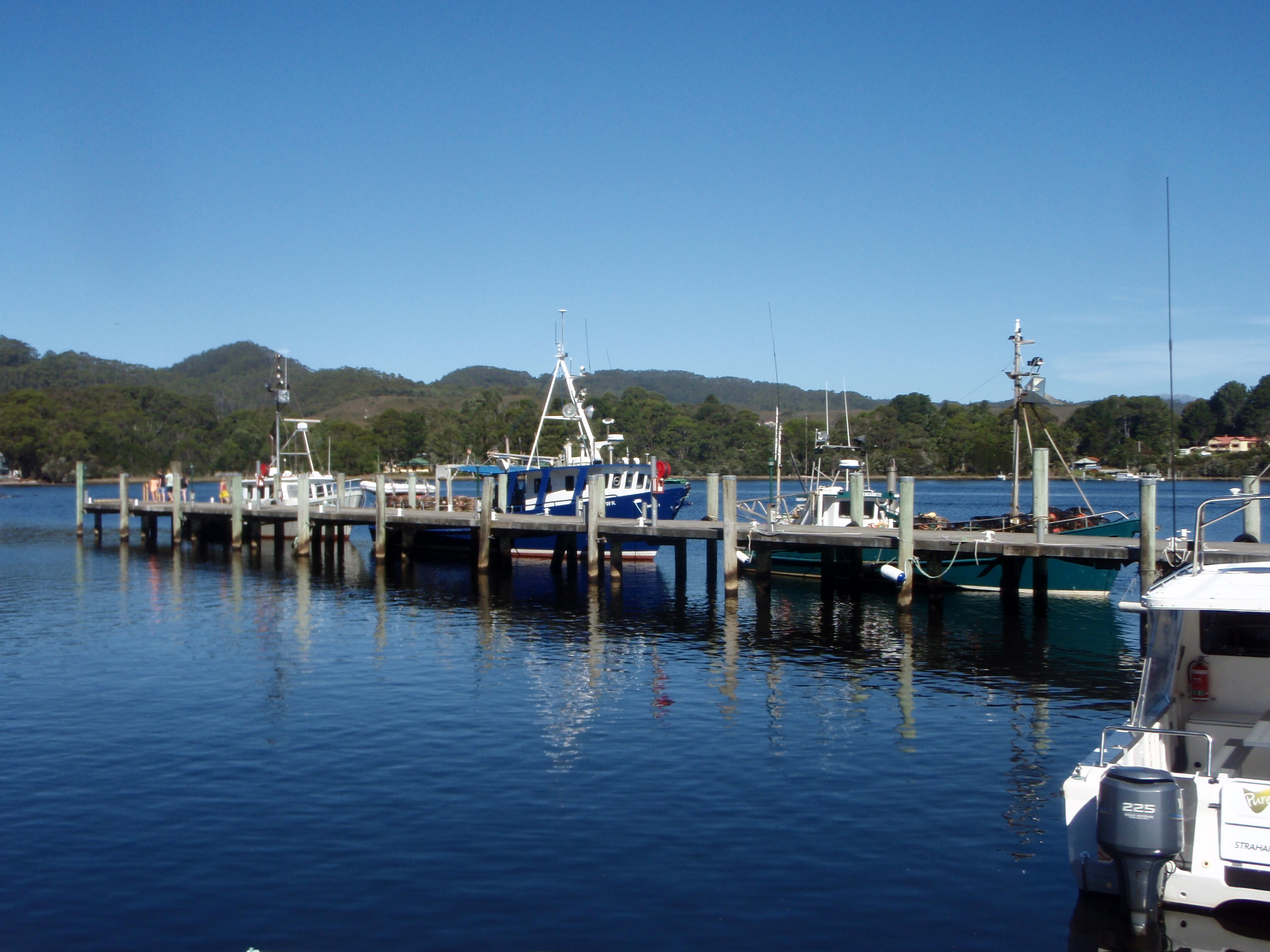 The port and some of the fishing vessels at Strahan, Tasmania